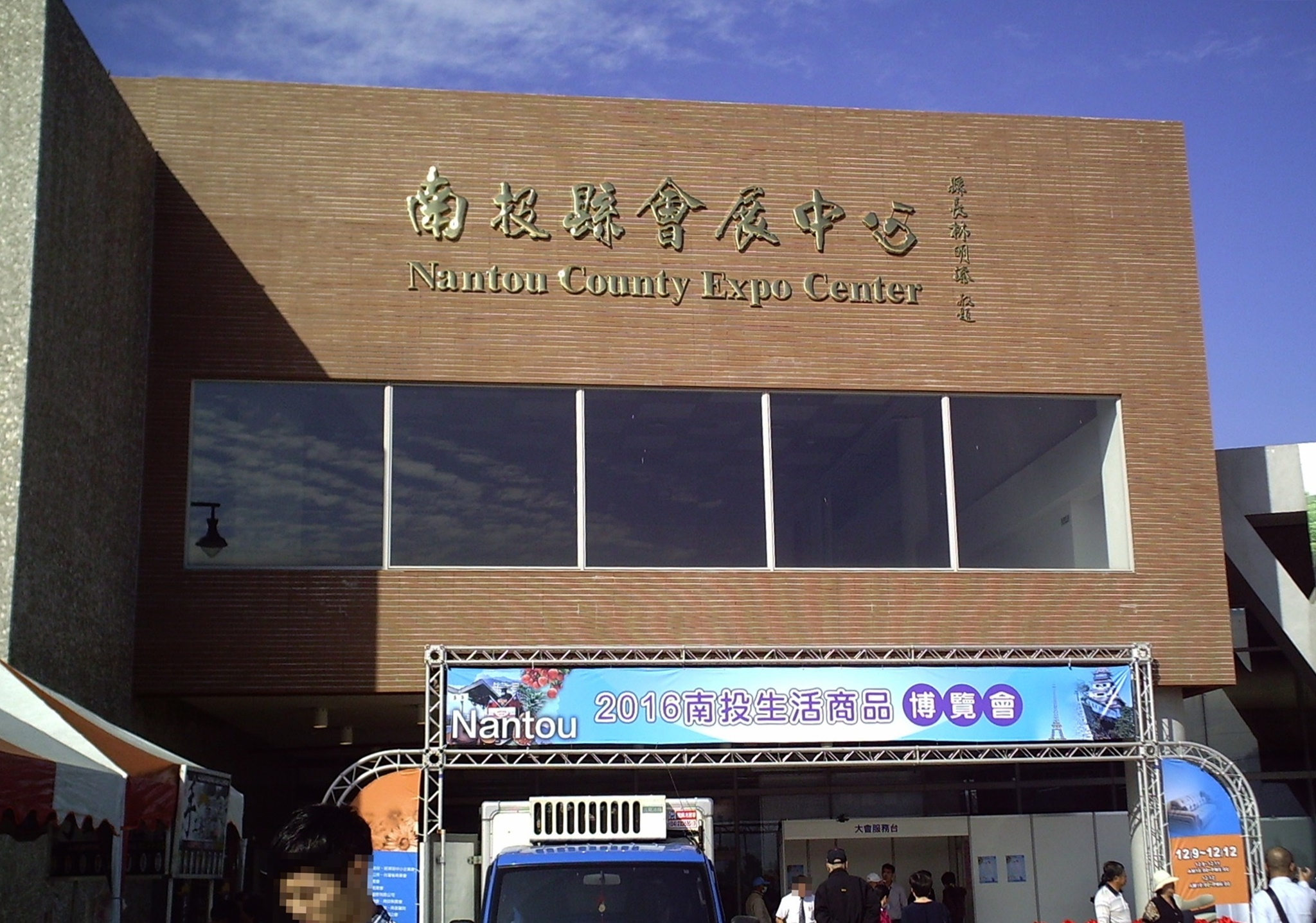 Nantou County Expo Center in Taiwan